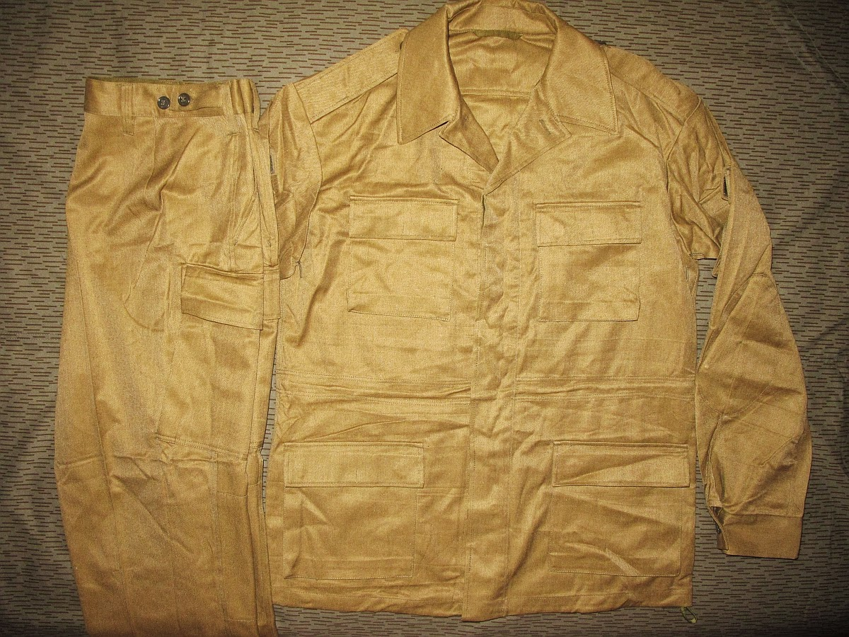 Soviet Summer M1982 Afghanka field uniform.